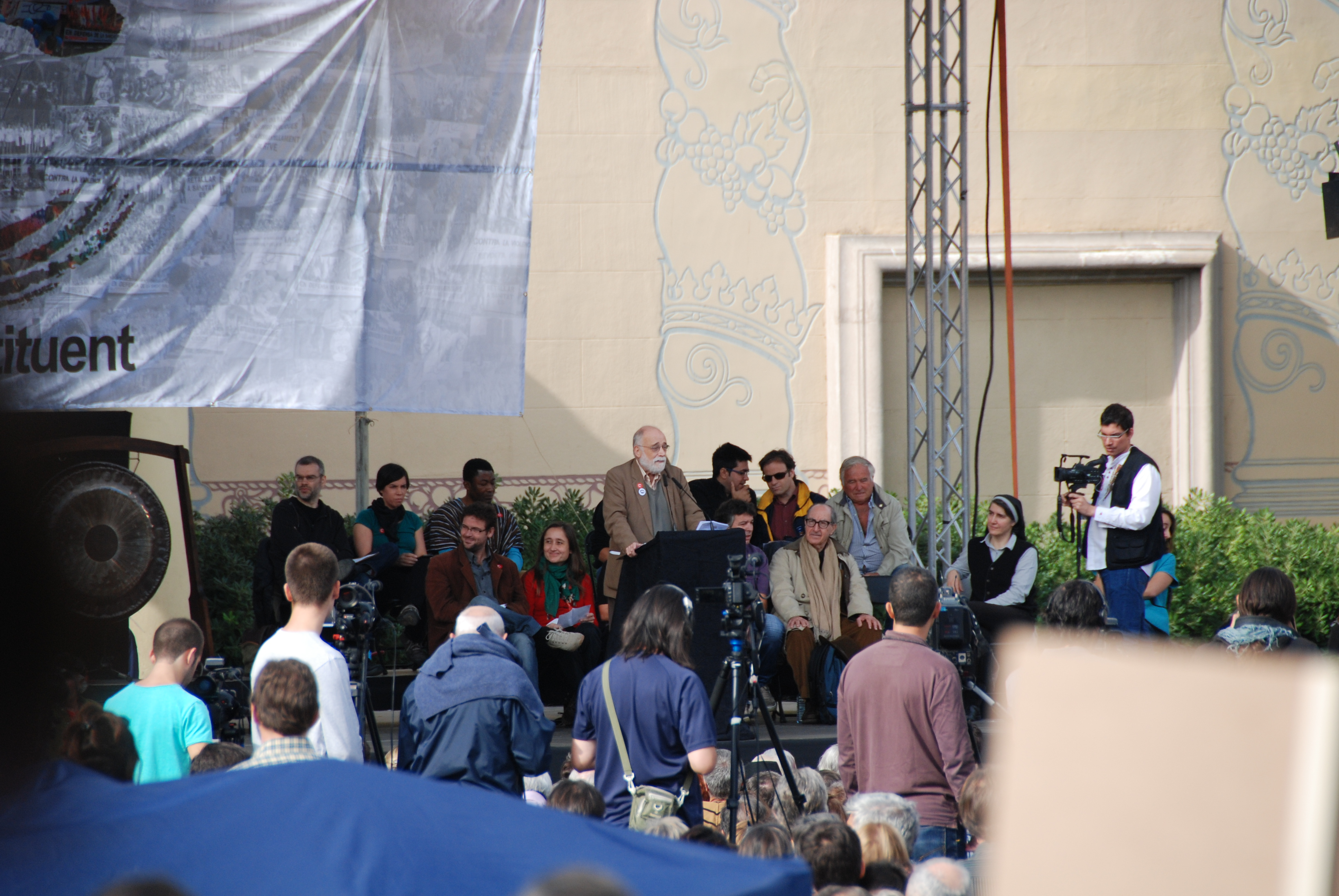 Arcadi Oliveres speaks at a Procés Constituent meeting in Barcelona.